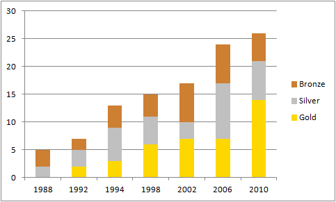 Medal breakdown at the Winter Olympics by Canada between the 1988 Calgary and 2010 Vancouver Games. Source: [1]